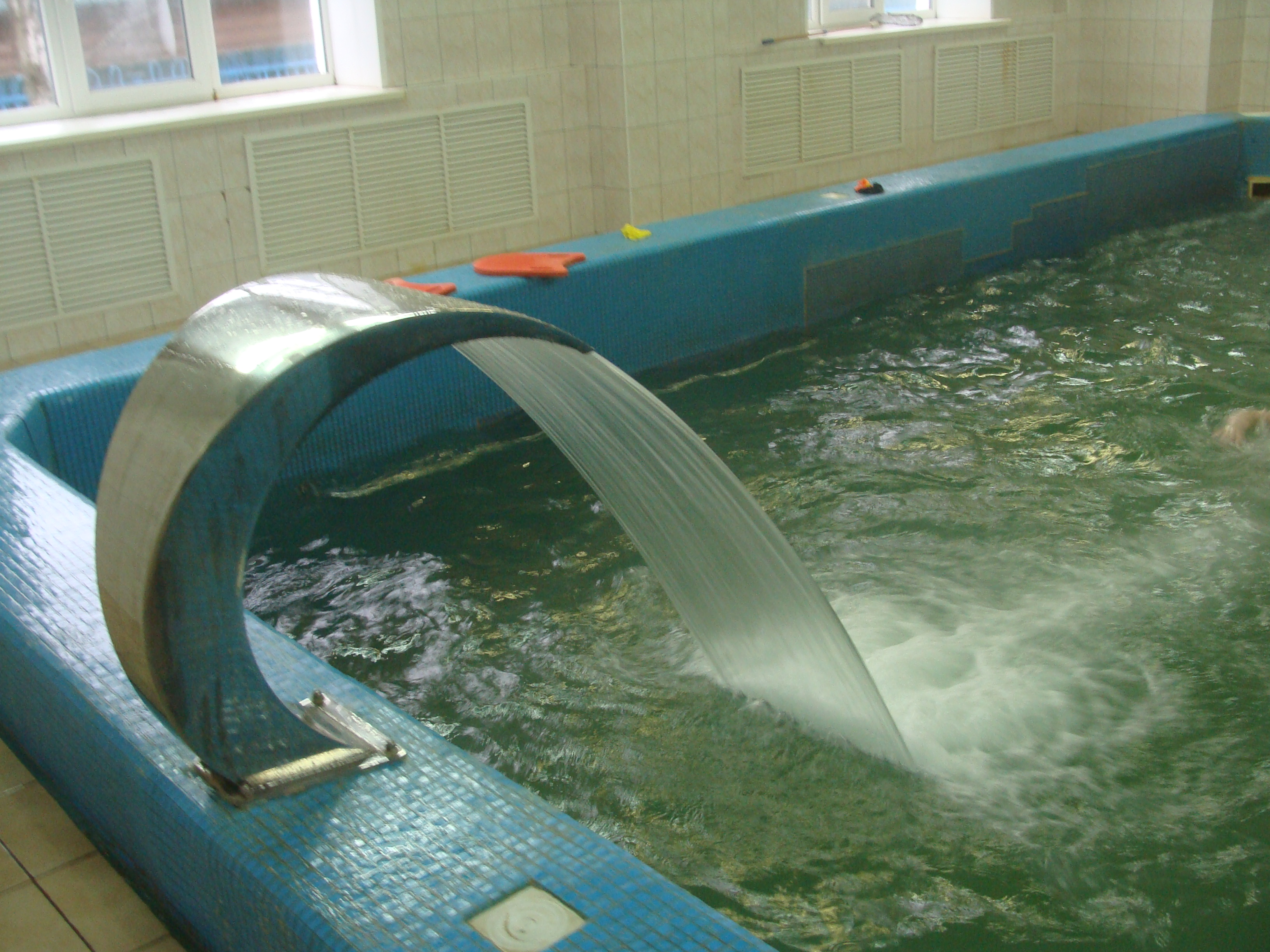 Swimming pool Zarya, Koryazhma